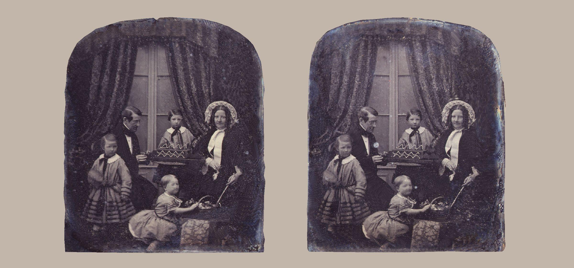 Sir Charles Wheatstone and his family, by Antoine Claudet (died 1867), given to the National Portrait Gallery, London in 1980. All images in this batch have been confirmed as author died before 1939 according to the official death date listed by the NPG.